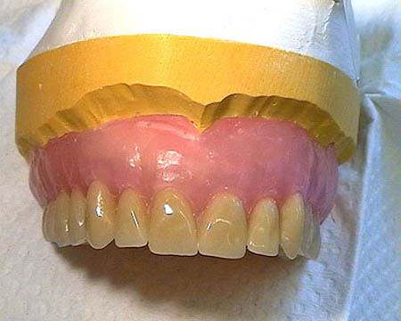 Totalprothese, Oberkiefer, Zahnprothese